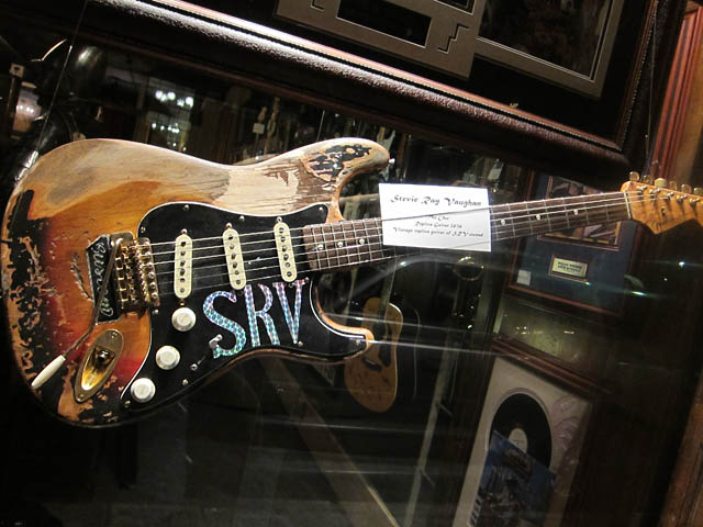 Stevie Ray Vaughan's 〝Number One” replica guitar (photographed near One Eyed Jack's, New Orleans) Me So Hungry food blog